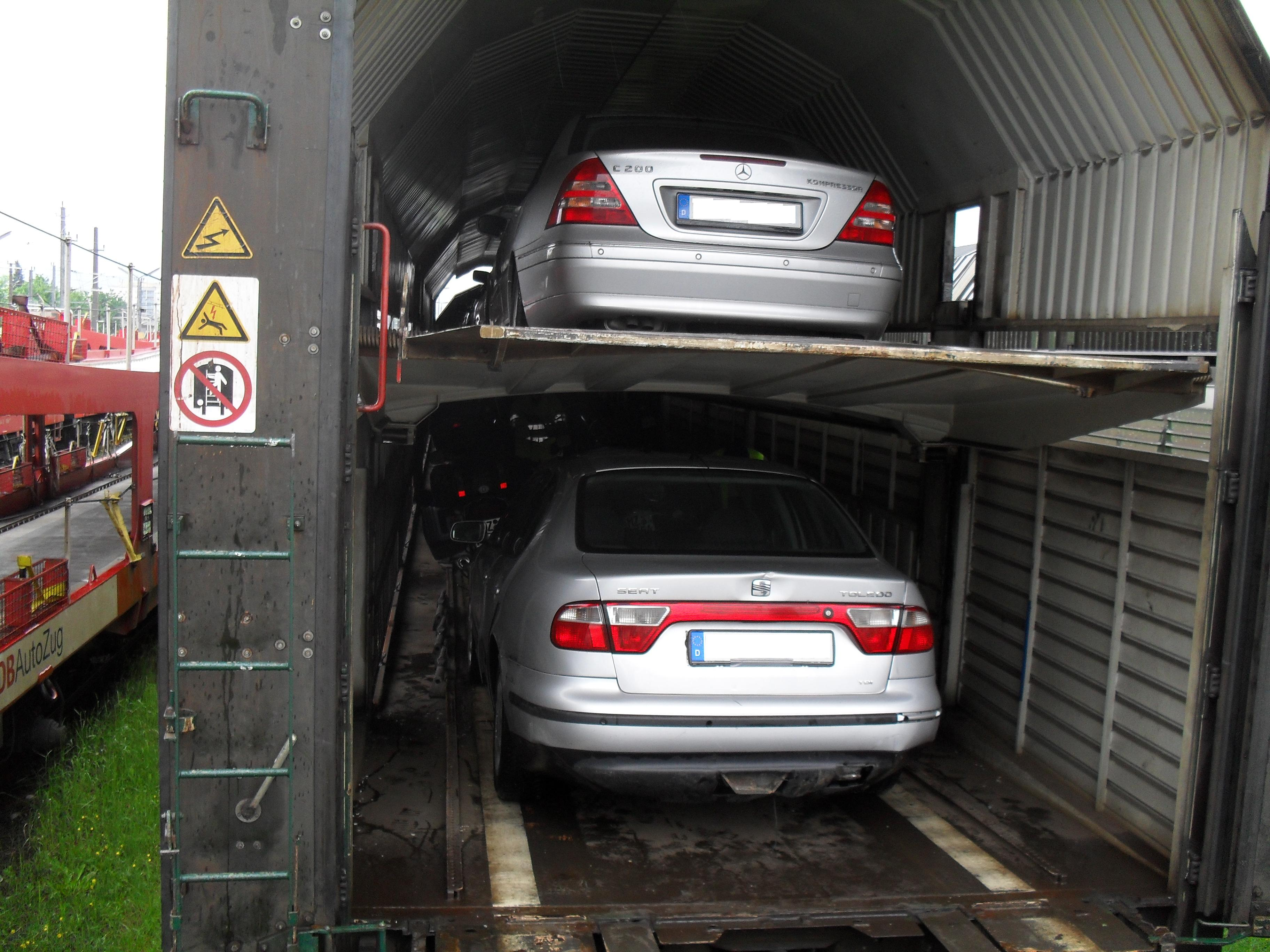 Autowaggon Heck